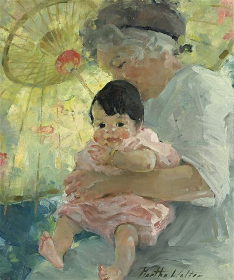 "Motherhood" painting of a mother and child by Martha Walter (March 19, 1875 – January 1976)